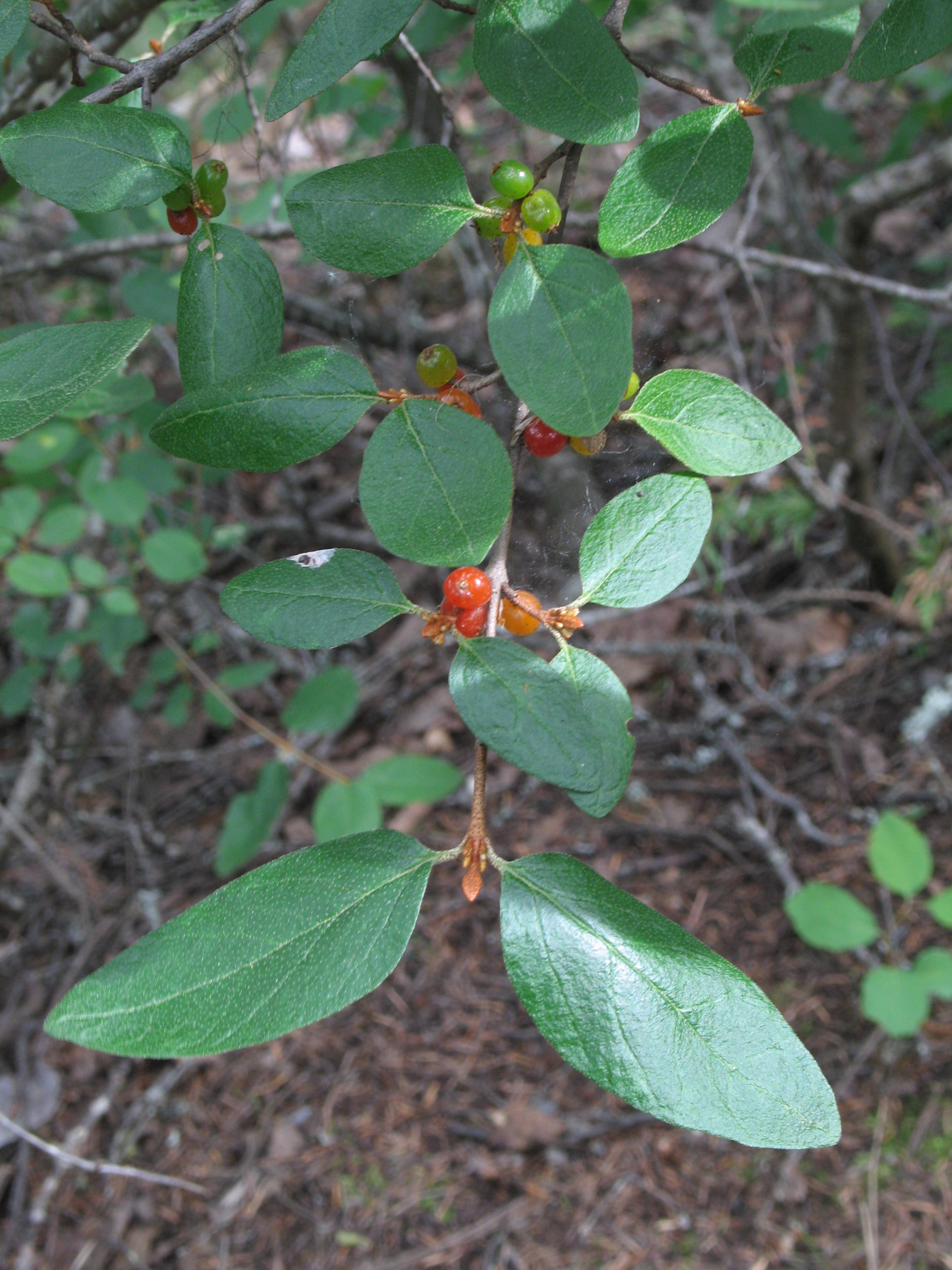 Soapberry (Shepherdia canadensis) with fruits at North Thompson River Provincial Park, B.C., Canada